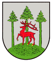 Coat of arms of Höringen